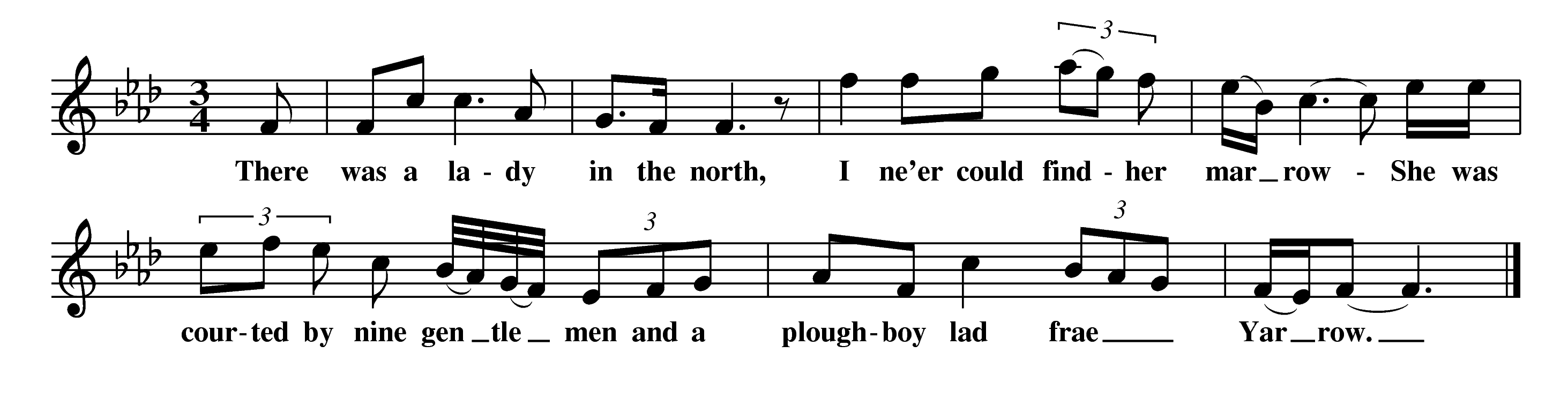 The Dowie Dens o Yarrow